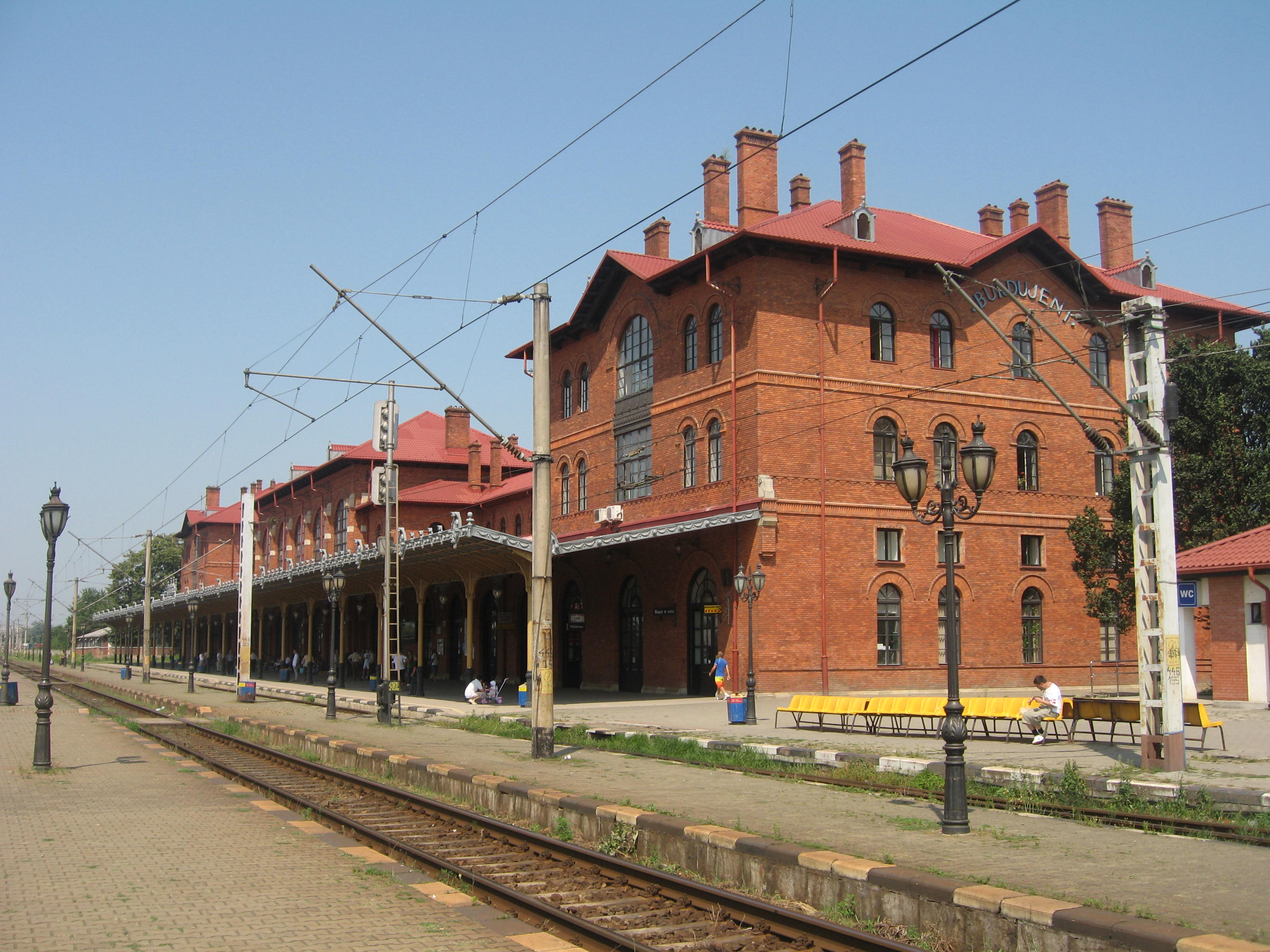 Suceava (Burdujeni) train station.